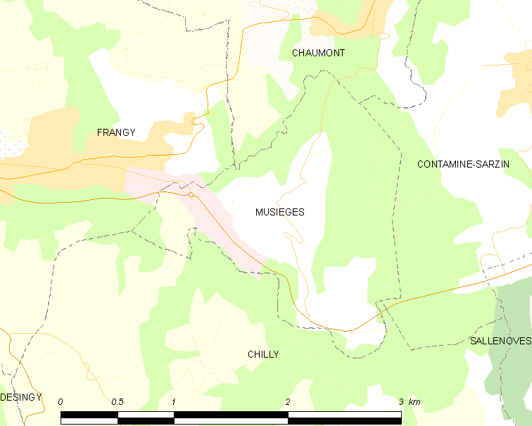 Map of French municipality Musièges